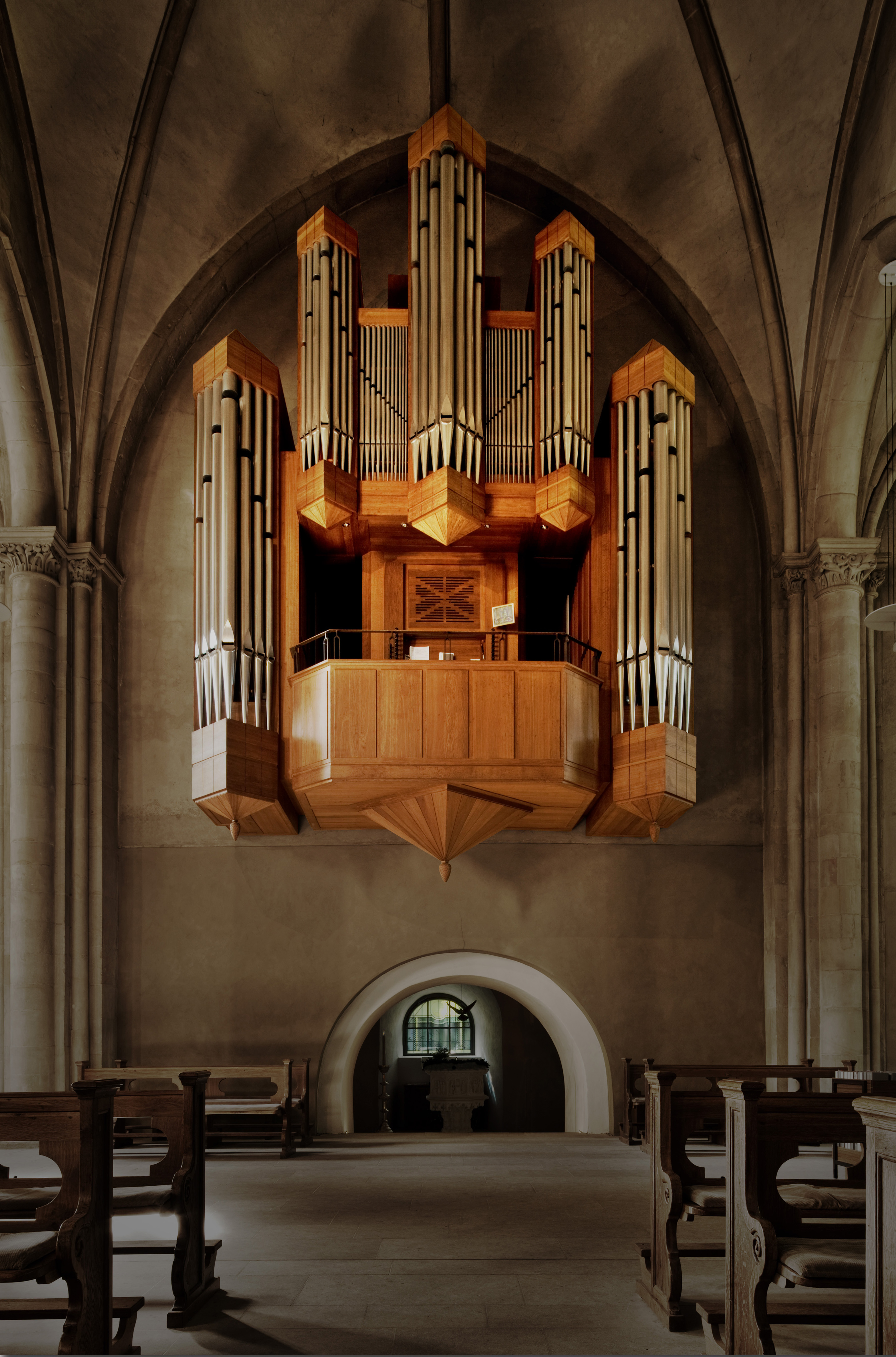 Billerbeck St JohnThis is a photograph of an architectural monument., no. 10